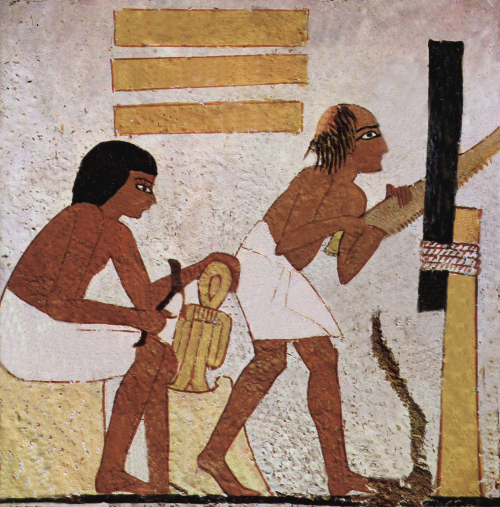 Egyptian artisan and sculptor - grave of Nebamun and Ipuki in Thebes - 18th dynasty